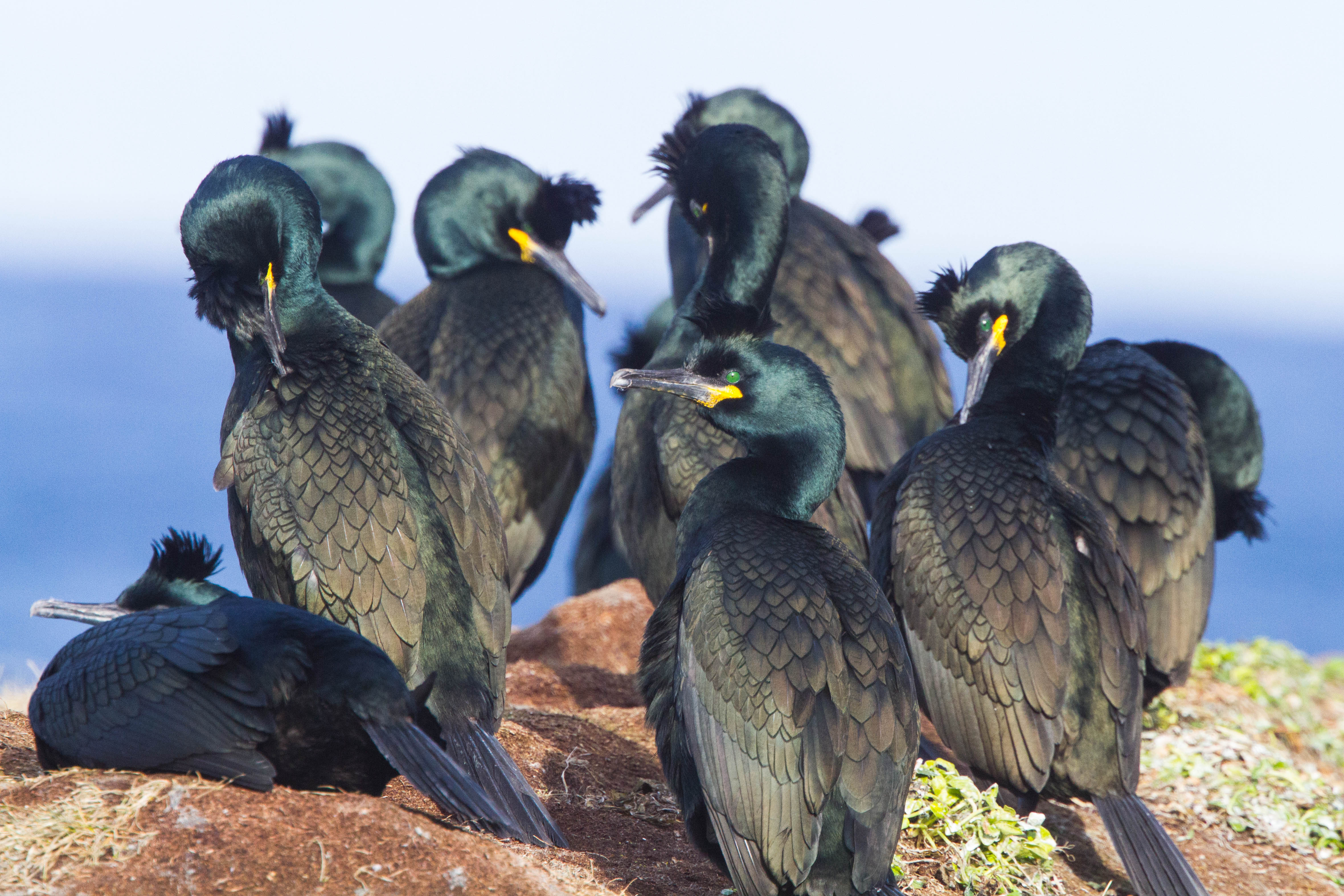 European Shags Phalacrocorax aristotelis, Norway